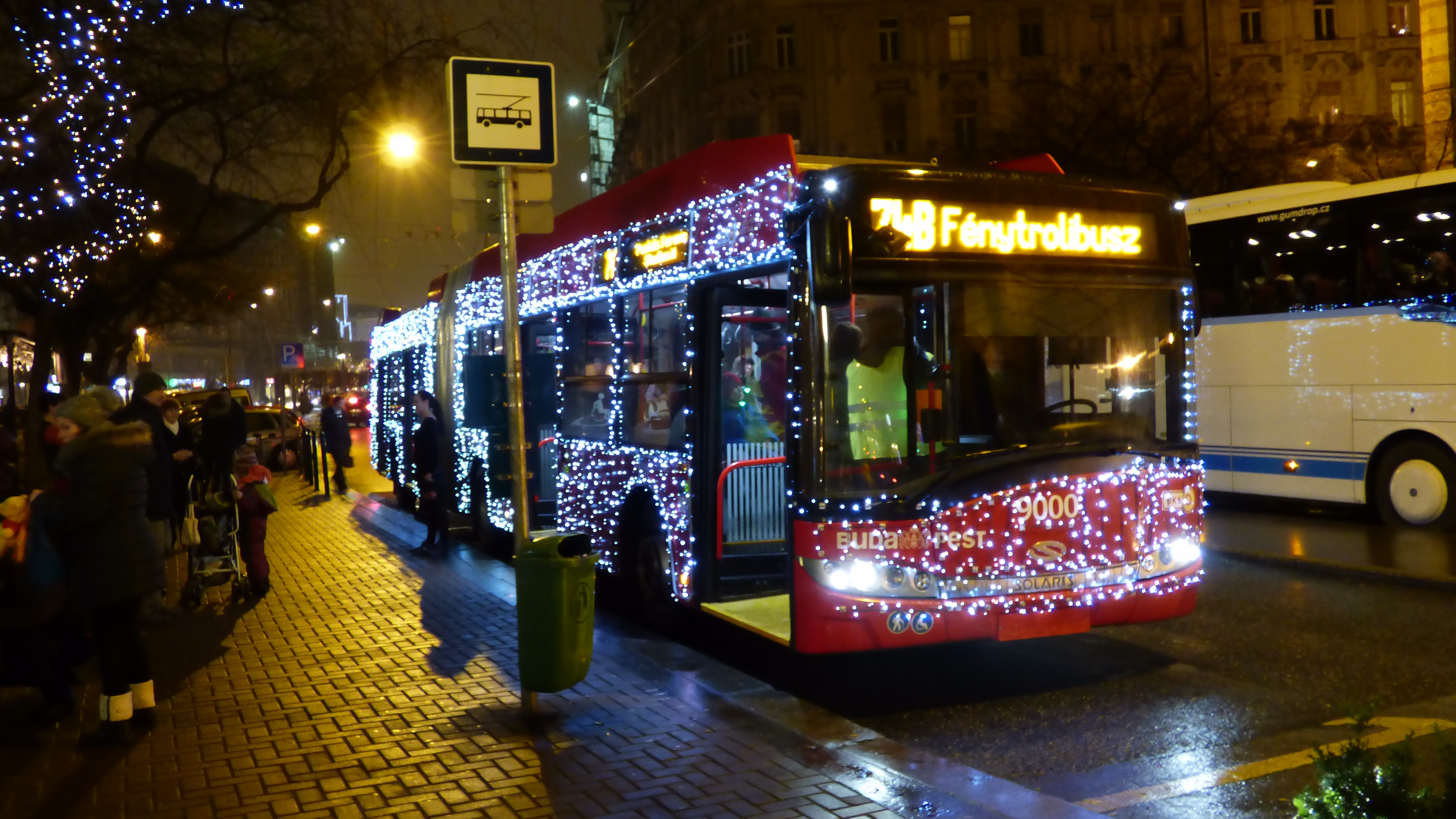 Škoda-Solaris Trollino 18 (cn. 9000), trolleybus no. 74B, Budapest, Astoria